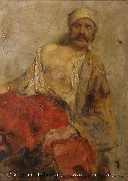 Soběslav Pinkas. Při odpočinku